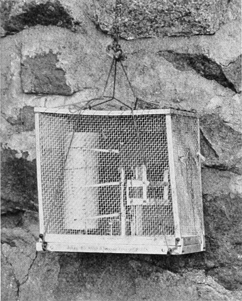 Meteorograph